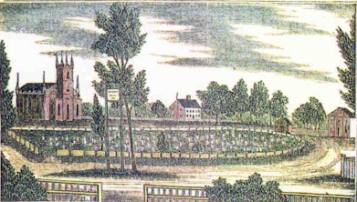 North Haven, Connecticut in 1835 (title not known) by John Warner Barber\ "An engraving, drawn by John Warner Barber in 1835, showing St. John's Episcopal Church, the Trumbull House and the North Haven Congregational Church on the North Haven Green."